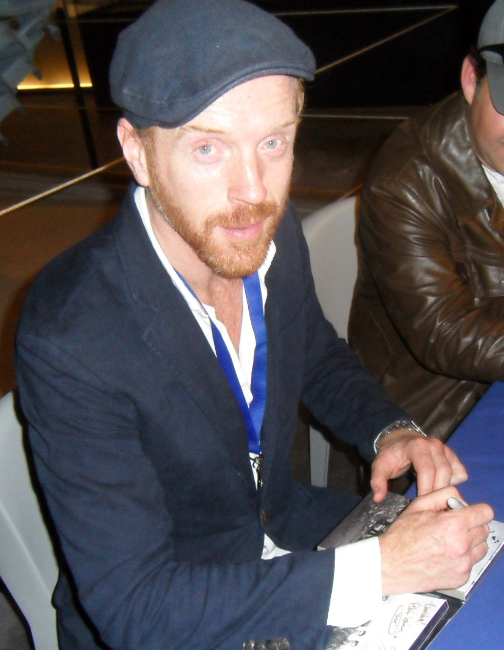 Damain Lewis at Band of Brothers Reunion